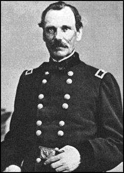 Image of James Shields in Army uniform